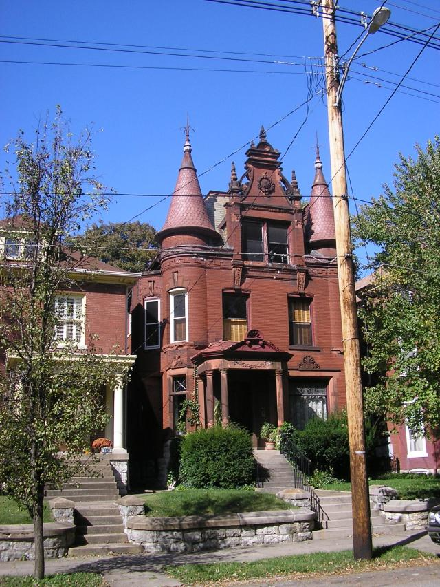 An example of the elaborate home architecture seen in Louisville's Original Highlands neighborhood. Taken by W.marsh on 10/18/05